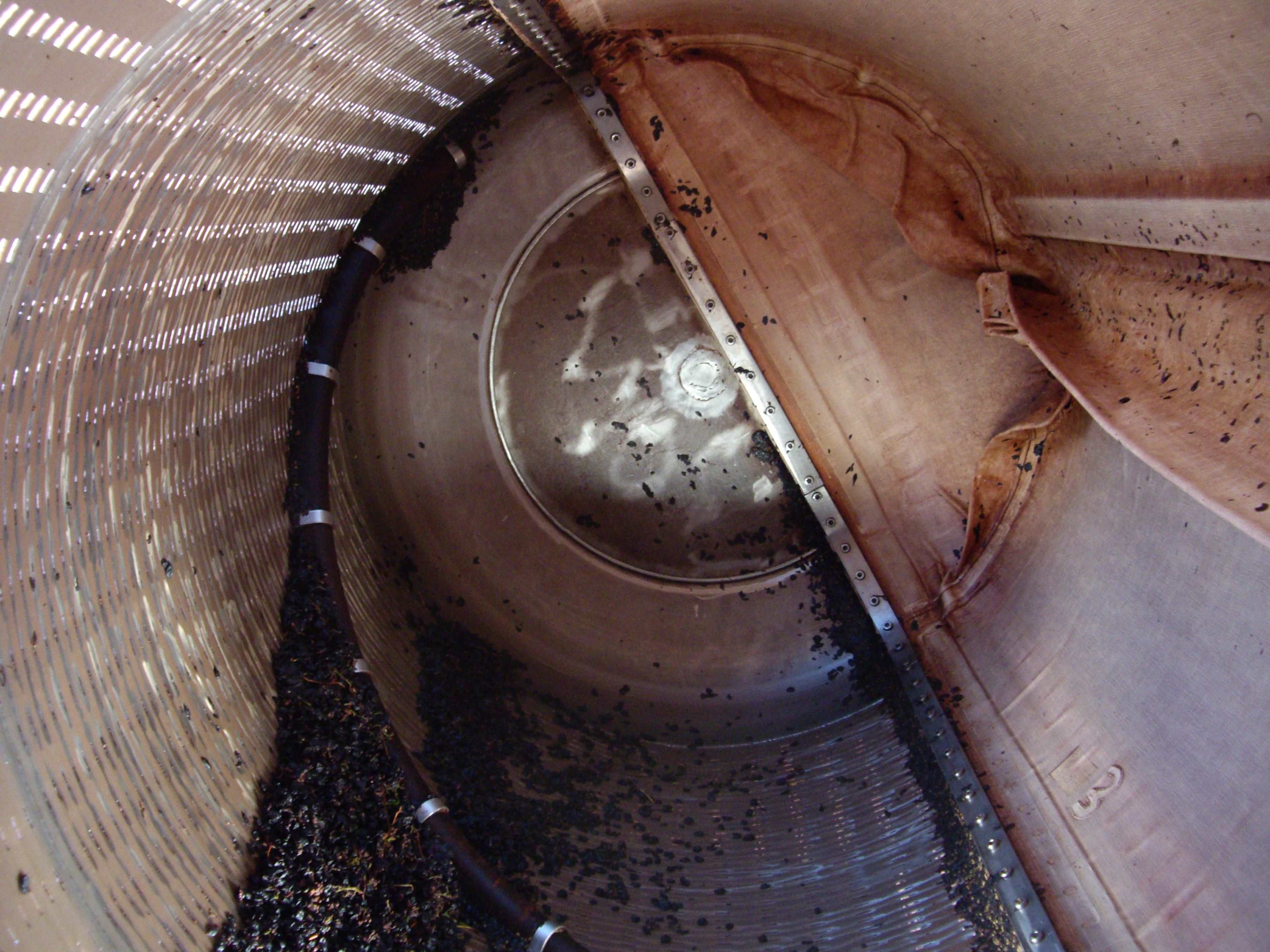 With left over Pinot noir skins and grapes after pressing